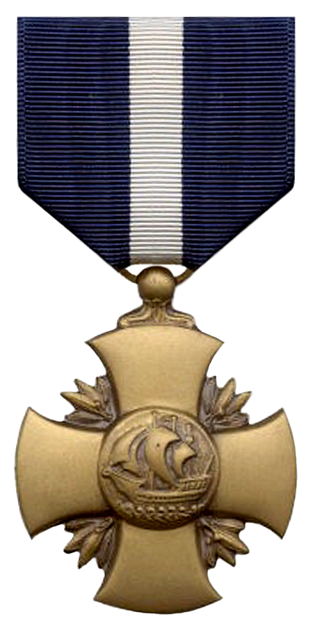 a navy cross medal with transparent background